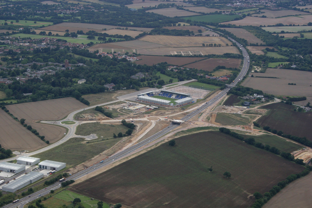 A12, New Junction, near to Mile End, Essex, Great Britain. This photo shows the construction of a new junction on the A12 road. Junction 28 will provide access to the Weston Homes Community Stadium, home to Colchester United.